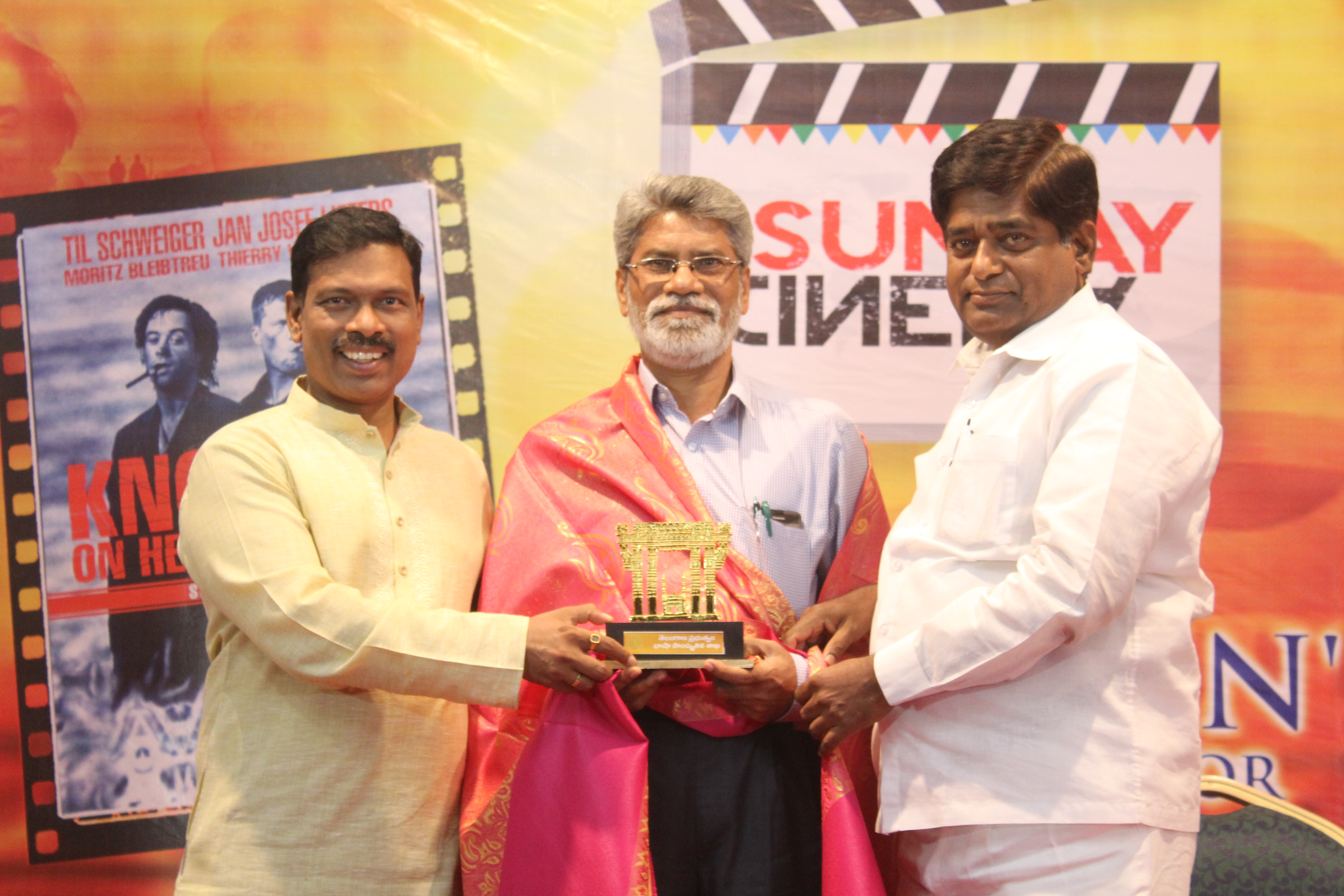 Laxmipathi Adepu felicitated by V. Prakash and Mamidi Harikrishna in Sunday Cinema,Paidi Jairaj Preview Theatre, Ravindra Bharathi, Hyderabad